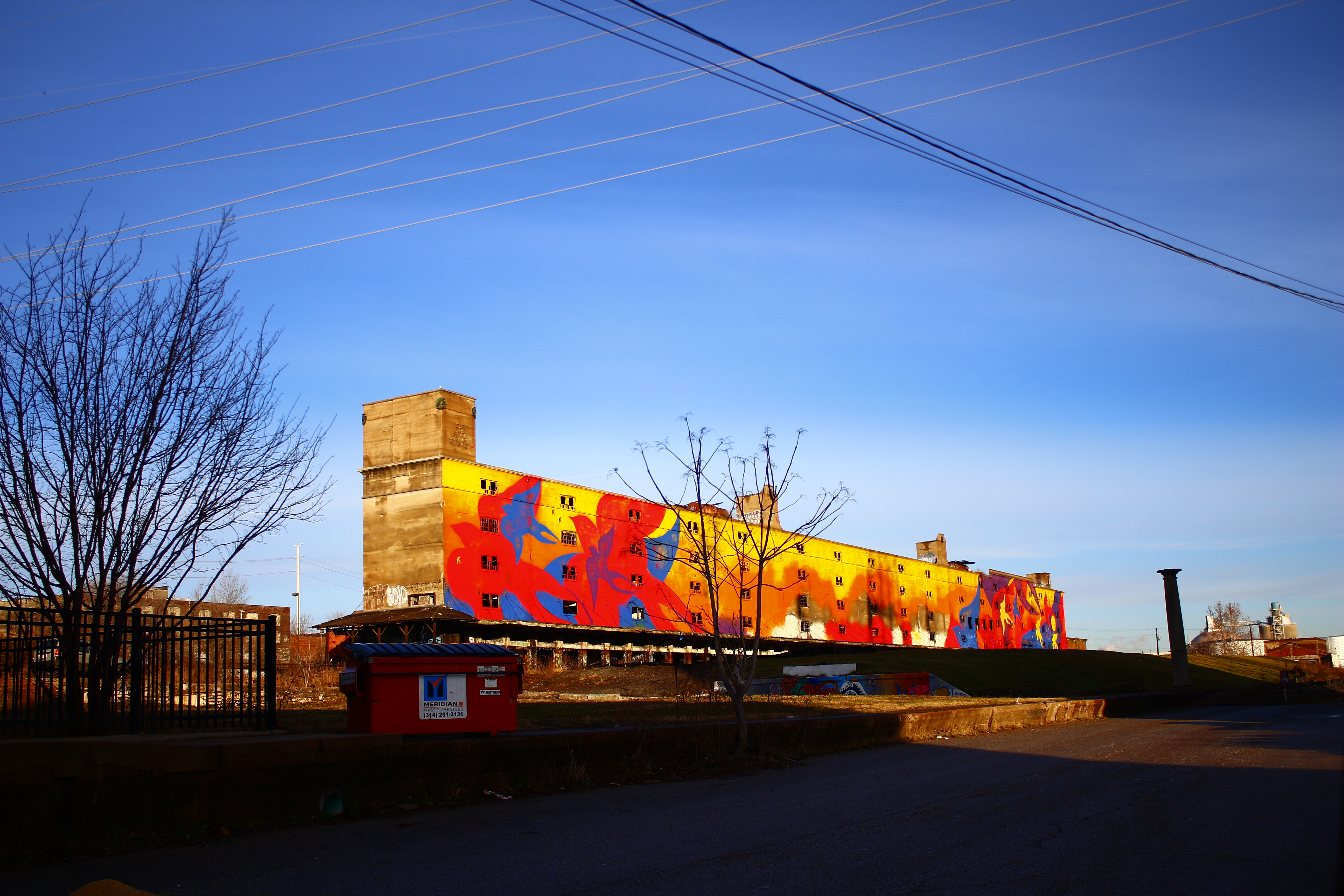 Migrate mura on Cotton Belt Freight Depotl